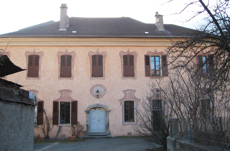 Homebase of the Maurienne Academy